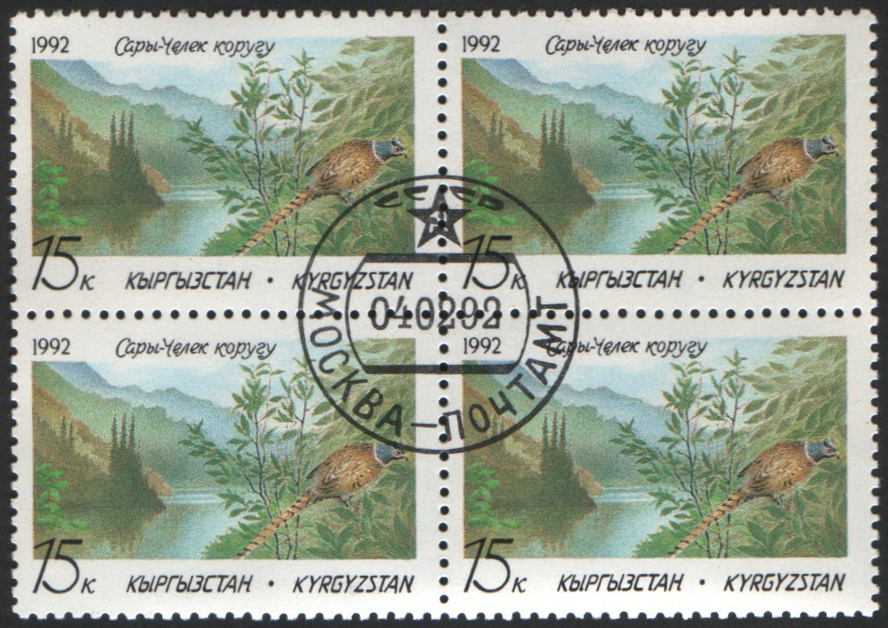 A USSR typographic cancellation to produce cancelled to order stamps as the first postage stamps of Kyrgyzstan, 15 kopecks, 1992.